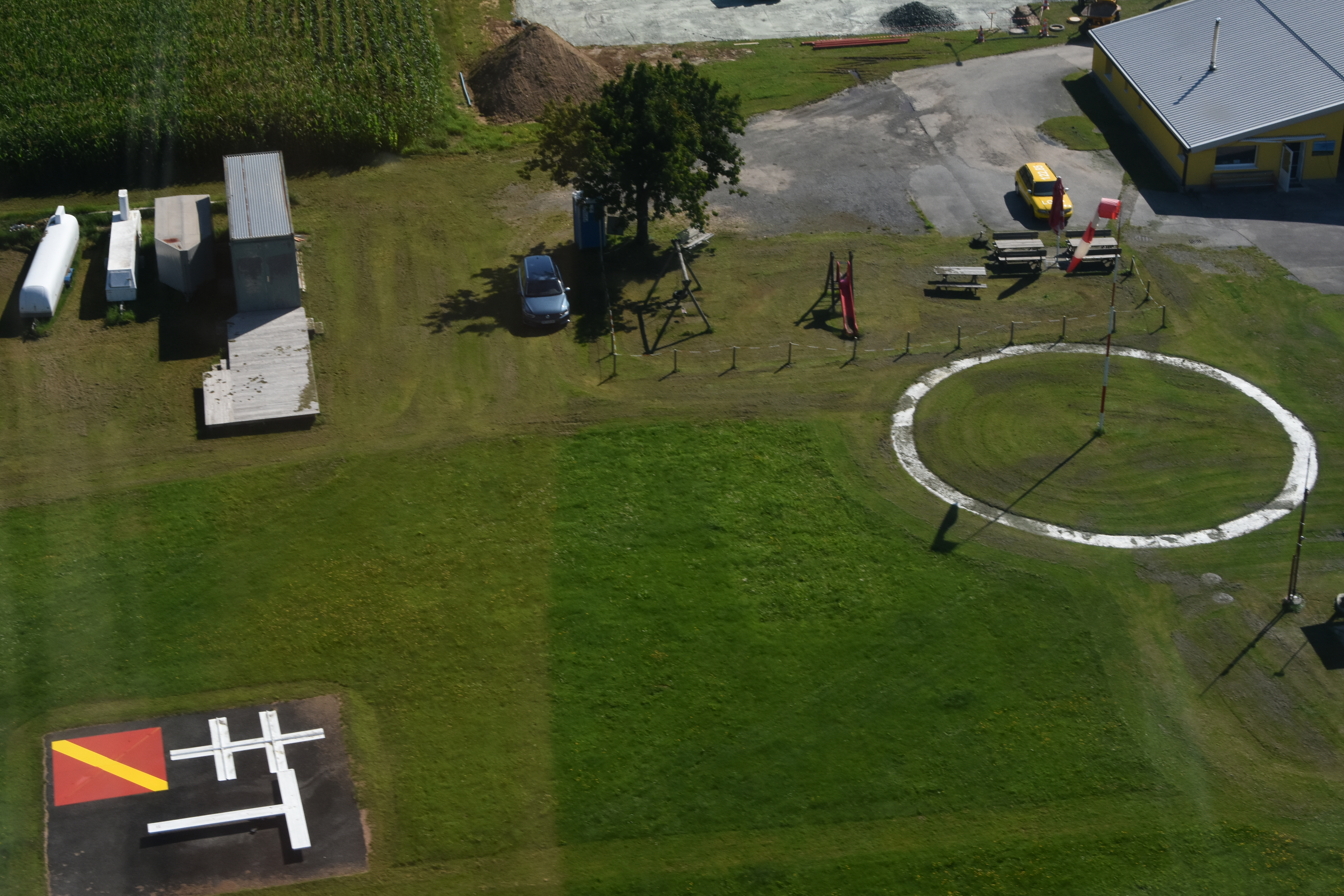 Airport Pinkafeld